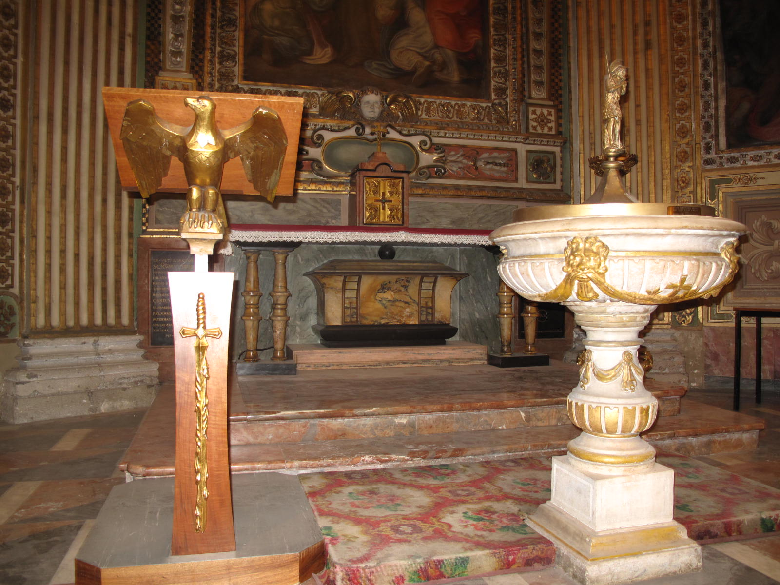 Altar with under it the urn containing the Relics of Saint Mirocles bishop of Milan - San Vittore al Corpo (Milan) - interior - Left Transept.